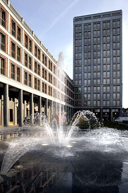 Hans Kollhoff's Colonel building in Maastricht, The Netherlands.